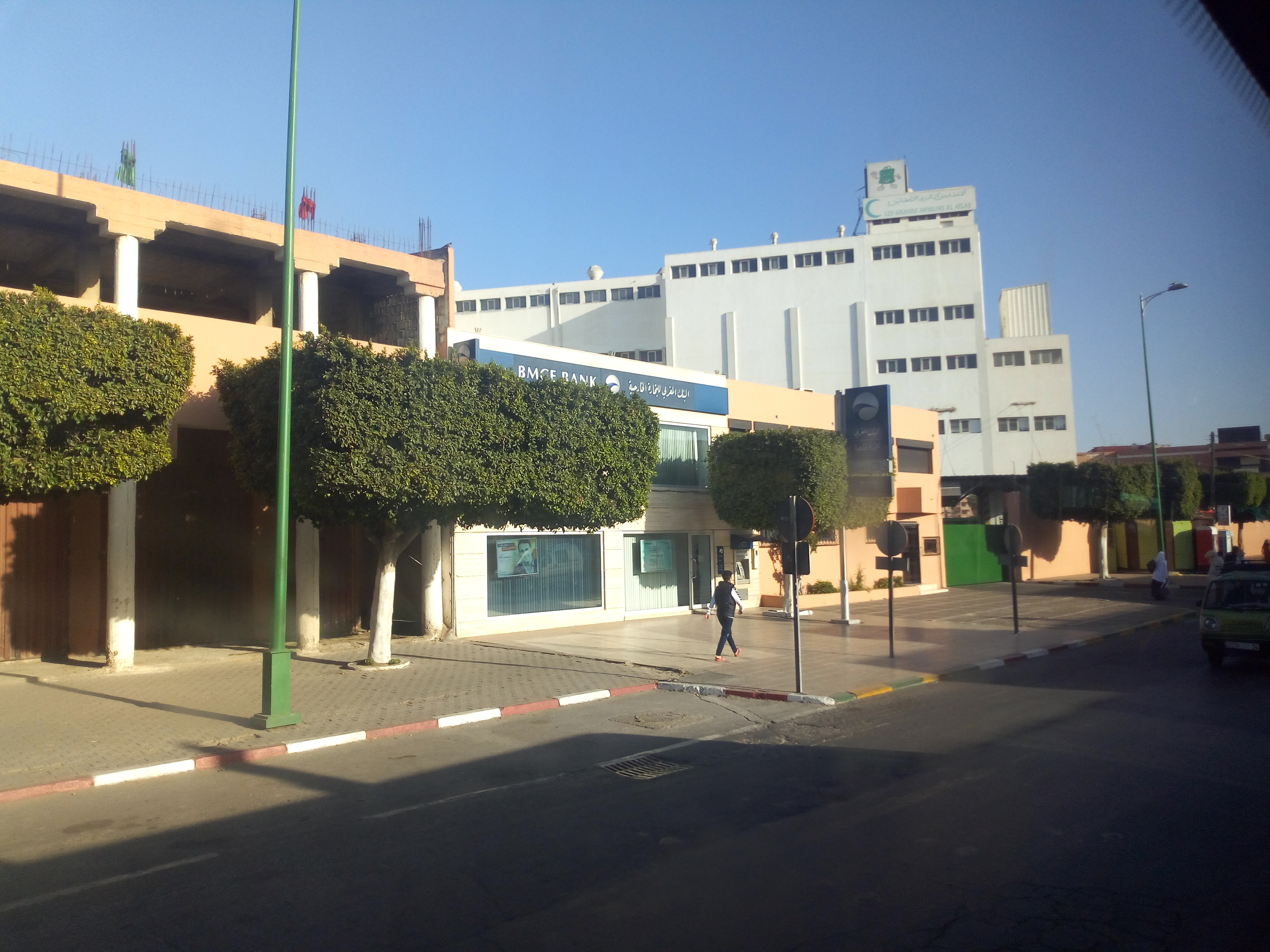 The road is near the grain mill in Ait Melloul by AmalouMed This is an image with the theme "Africa on the Move or Transport" from: Morocco